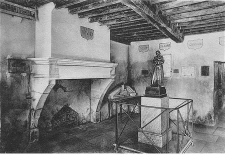 Home of Joan